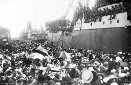 Civilians crowd a wharf in Fremantle, Western Australia, from which the troop transport Suevic (A29) was about to depart carrying Australian service personnel for duty overseas